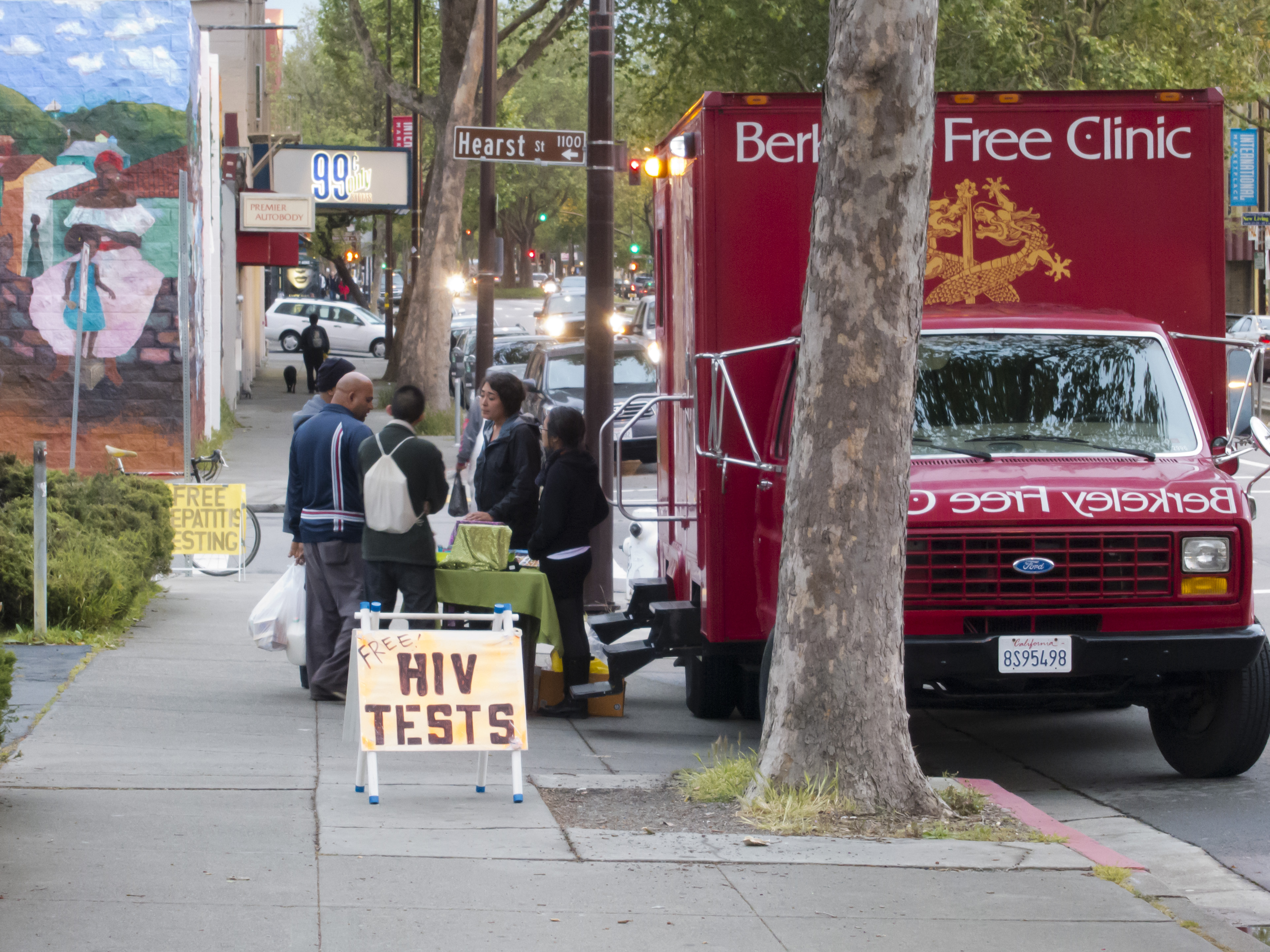 A Berkeley Free Clinic truck offering free HIV tests on a sidewalk in Berkeley, California, at Hearst and San Pablo Ave. Two women staff the counter and talk to three men, one carrying groceries. A sign reads "FREE! HIV TESTS". In the background is a sign reading "FREE HEPATITIS TESTING" and the truck offering that is out of frame to the left. A street sign reads "Hearst St 1100" and two stores are visible in the background, the 99¢ only store and Premier Autobody. A mural of a woman and child is painted on a wall at left.